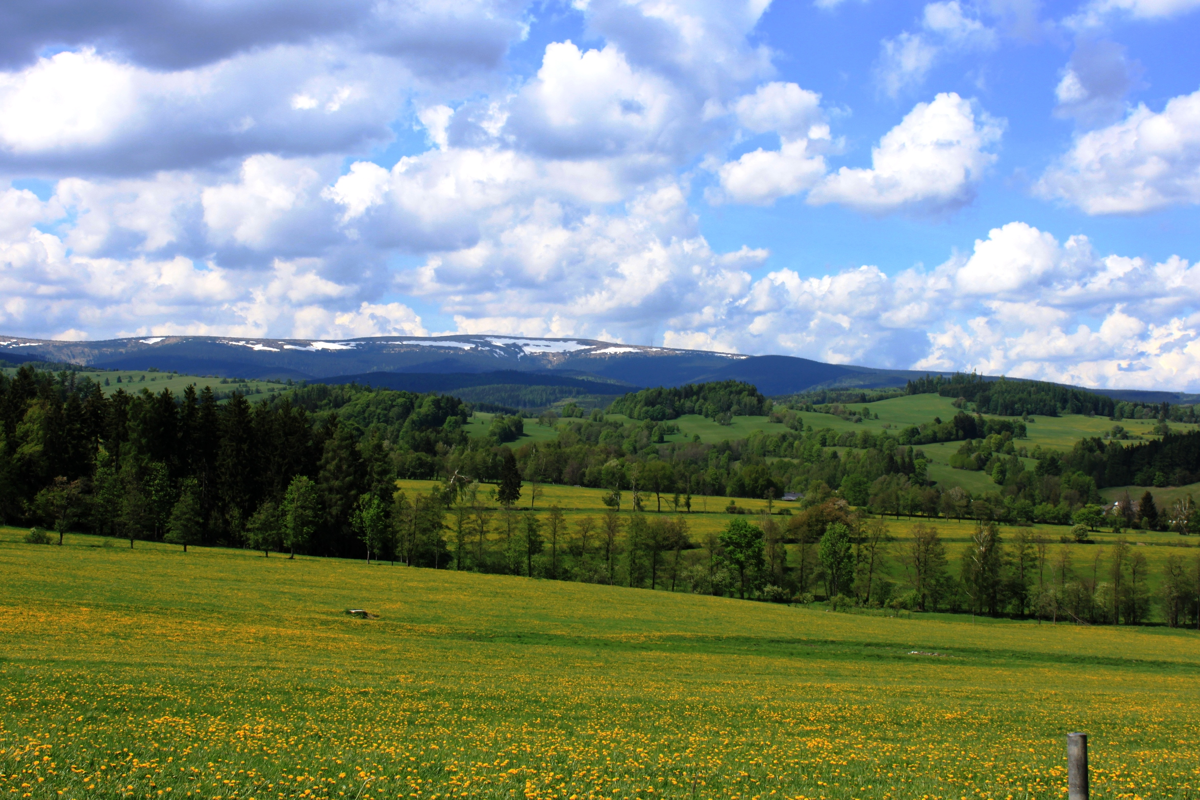 Jeseniky